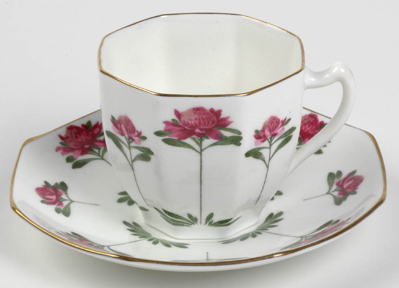 Tea cup and saucer belonging to Miles Franklin